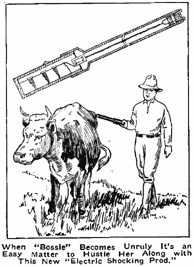 One of the earliest electric cattle prods